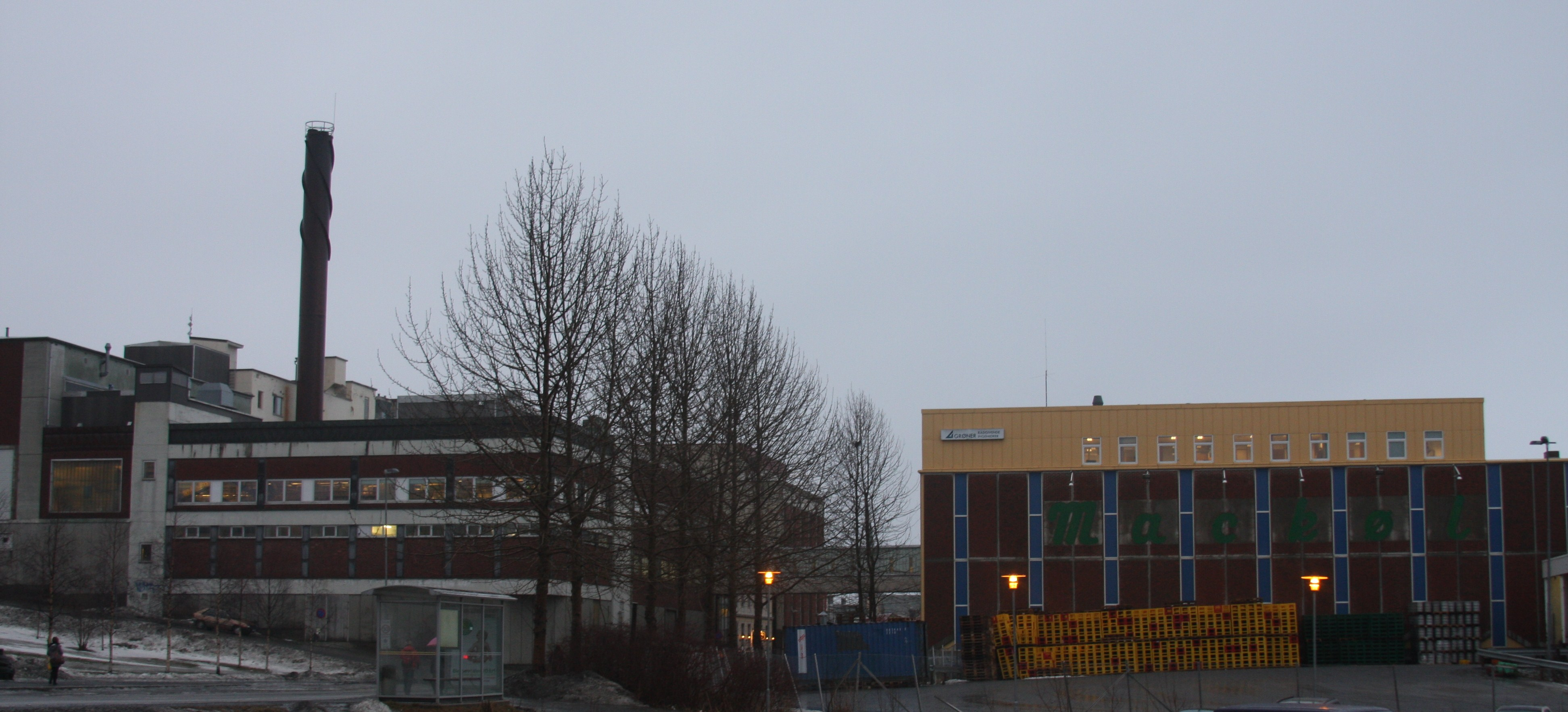 Mack brewery, Tromsö, Norway